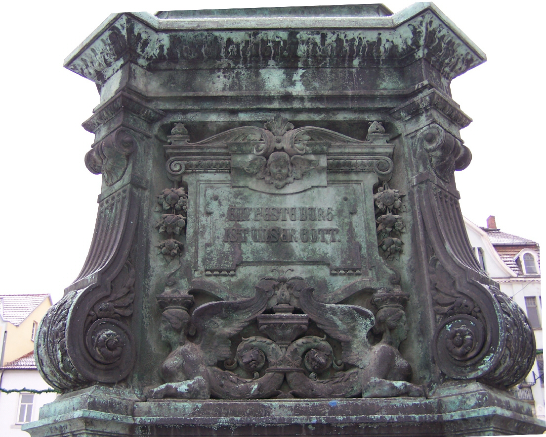 A detail at the North front of the Luther monument in Eisenach.